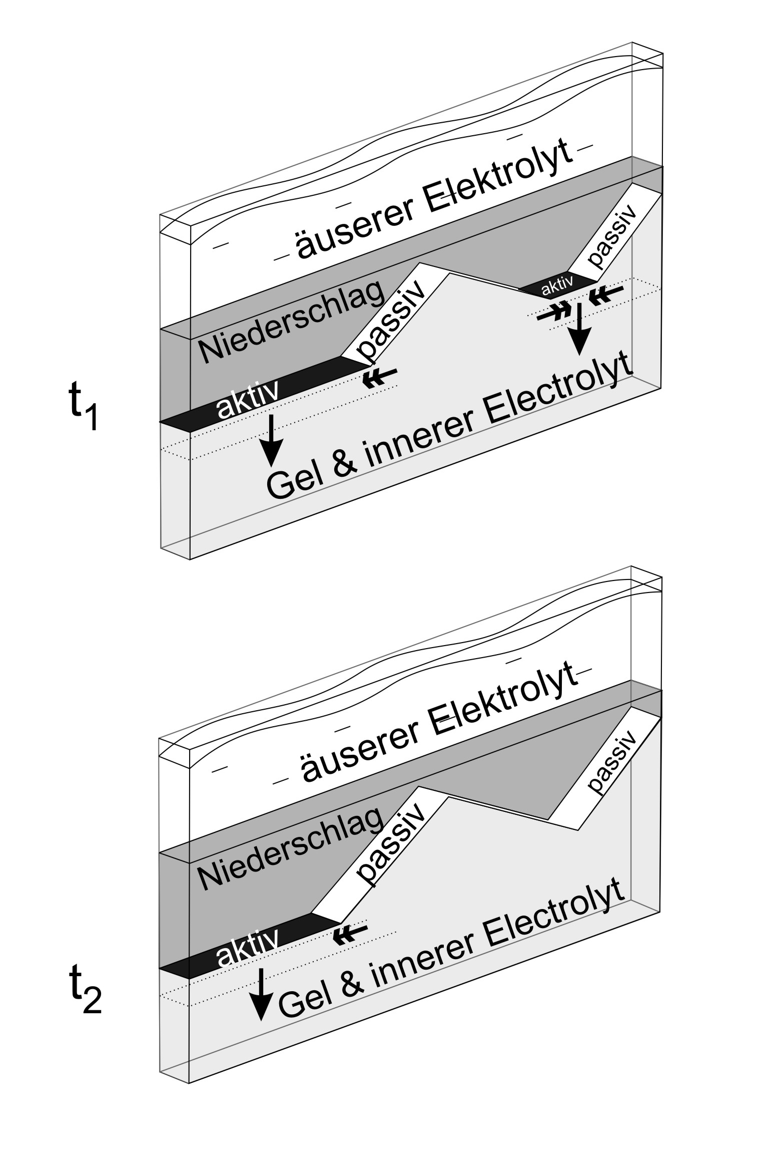 Formation of macroscopic patterns in Hantz reactions, showing two consecutive snapshots, marking the active edge of the precipitate (the precipitation front), the semipermeable passive edges of the precipitate, the outer electrolyte which diffuses in the gel, and the gel containing the inner electrolyte. Regressing edges of the precipitation fronts are marked by double arrows. Advancing direction of the precipitation front is marked by a single arrow.